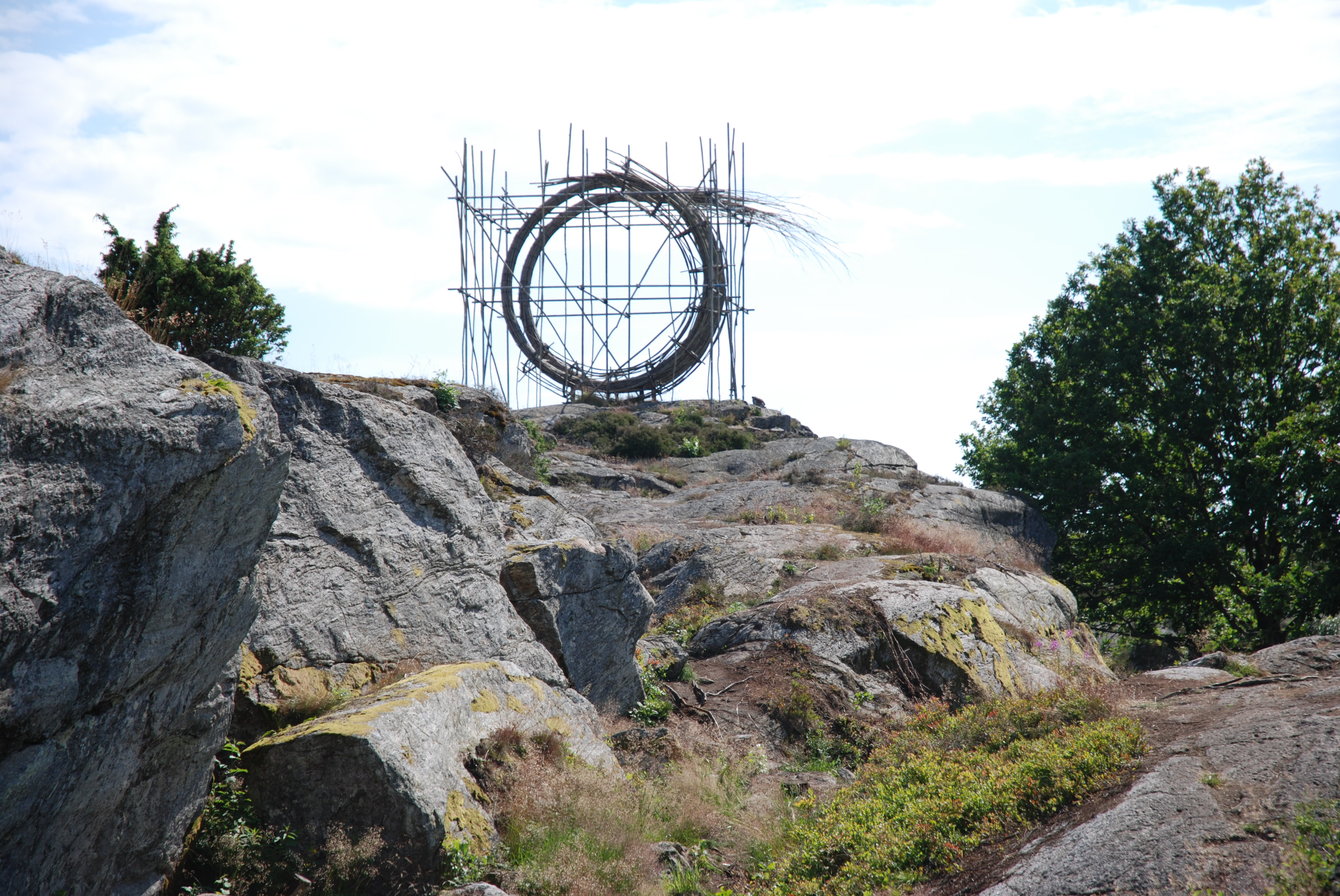 Leo Pettersson´s installation Sprung, Skulptur i Pilane, Sweden